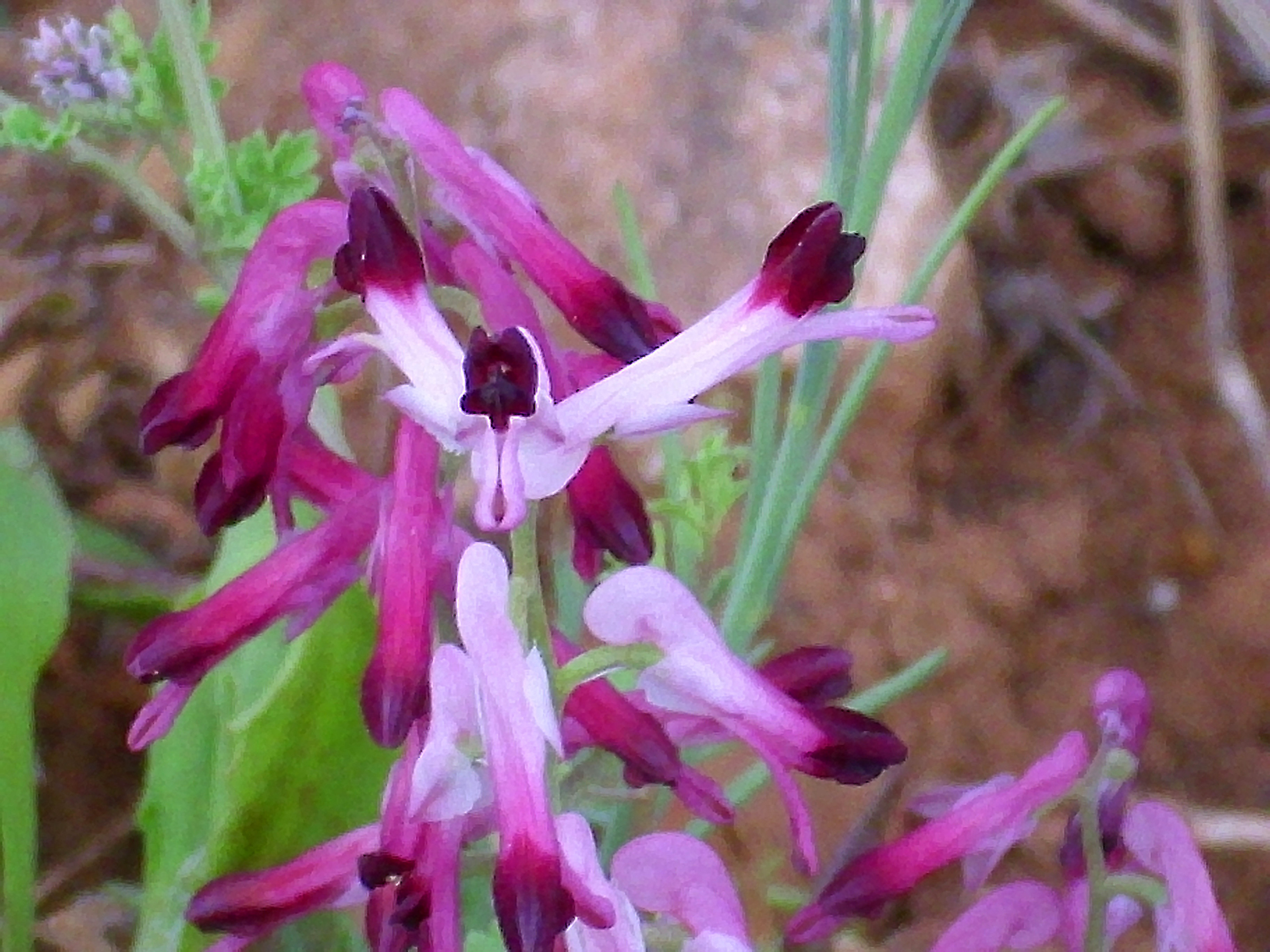 Fumaria muralis flowers close up Campo de Calatrava, Spain